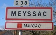 meyssac's city front panel